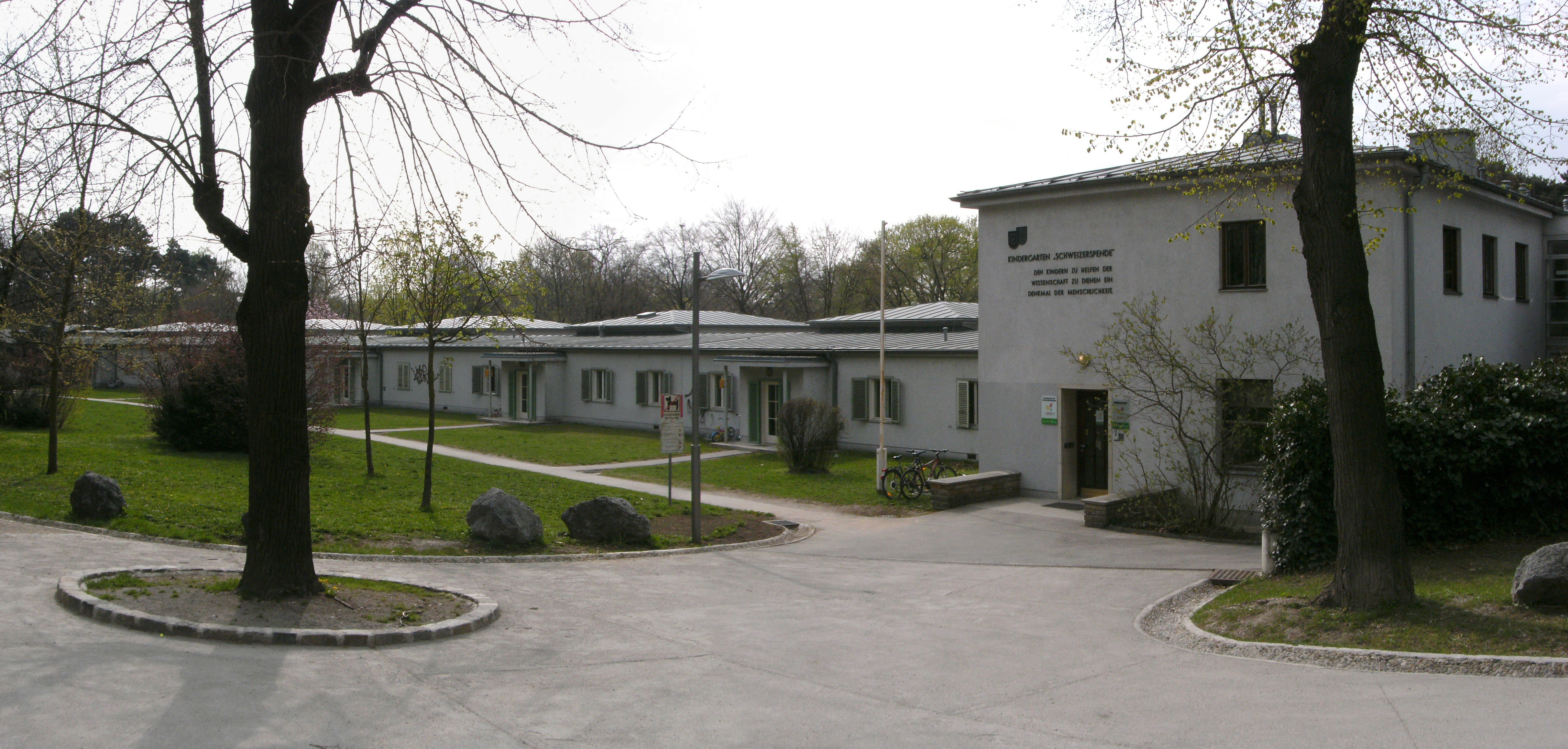 "Schweizerspende" (i.e. Swiss donation) kindergarten in Auer-Welsbach-Park, Vienna's 15th district (listed building)